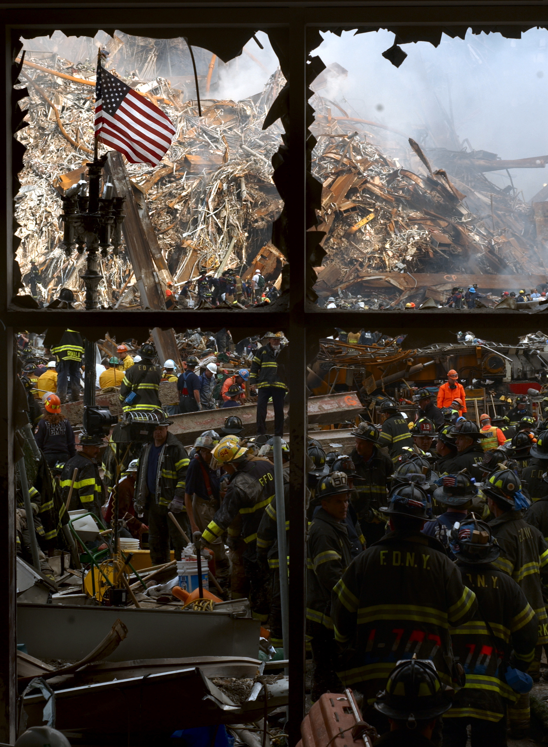 New York City firemen walk past the American flag as they work their way toward the heart of the devastation that was once the World Trade Center.